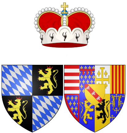 Coat of arms of Princess Elisabeth of Lorraine as Electress of Bavaria